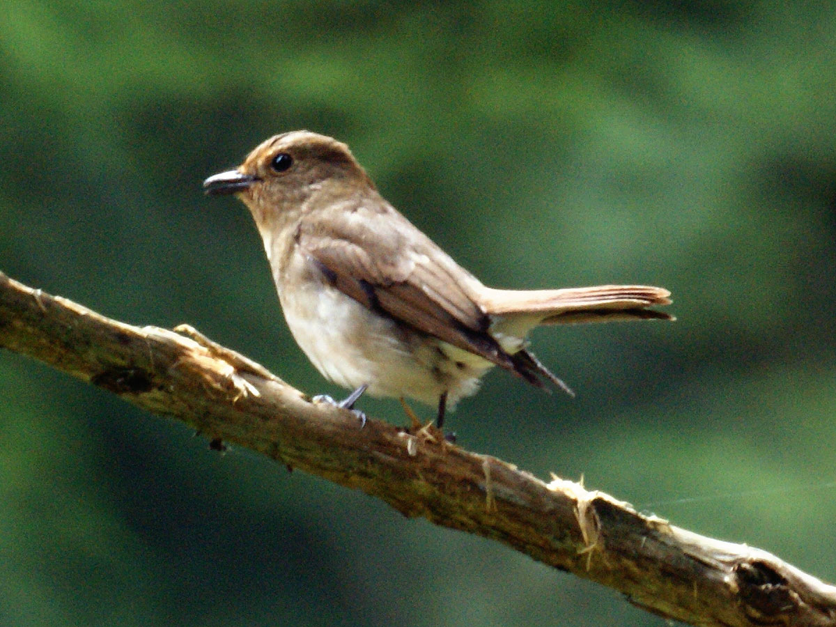 Blue-and-White Flycatcher